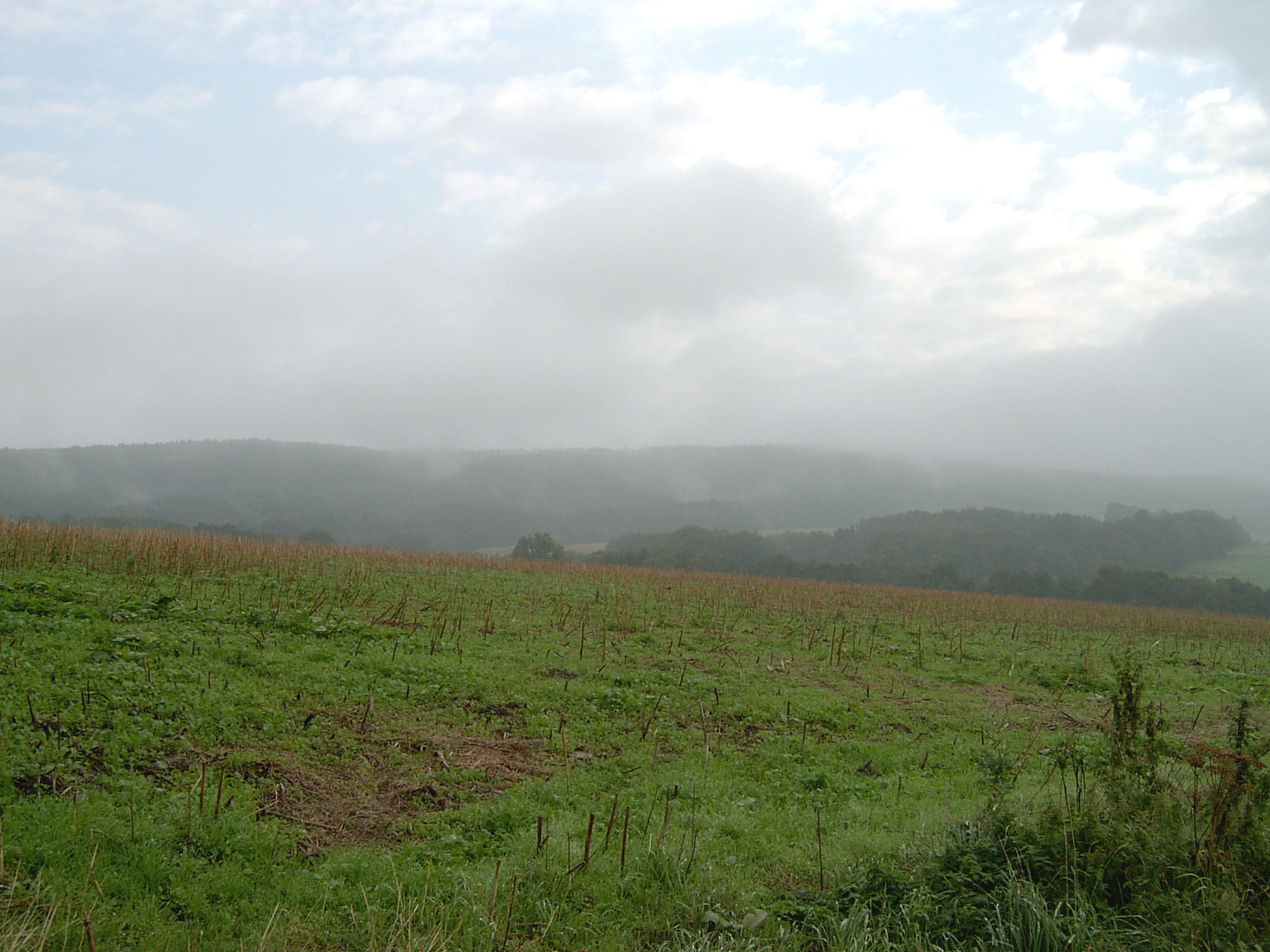 Wiehengebirge mountain range, Germany, on a foggy day.